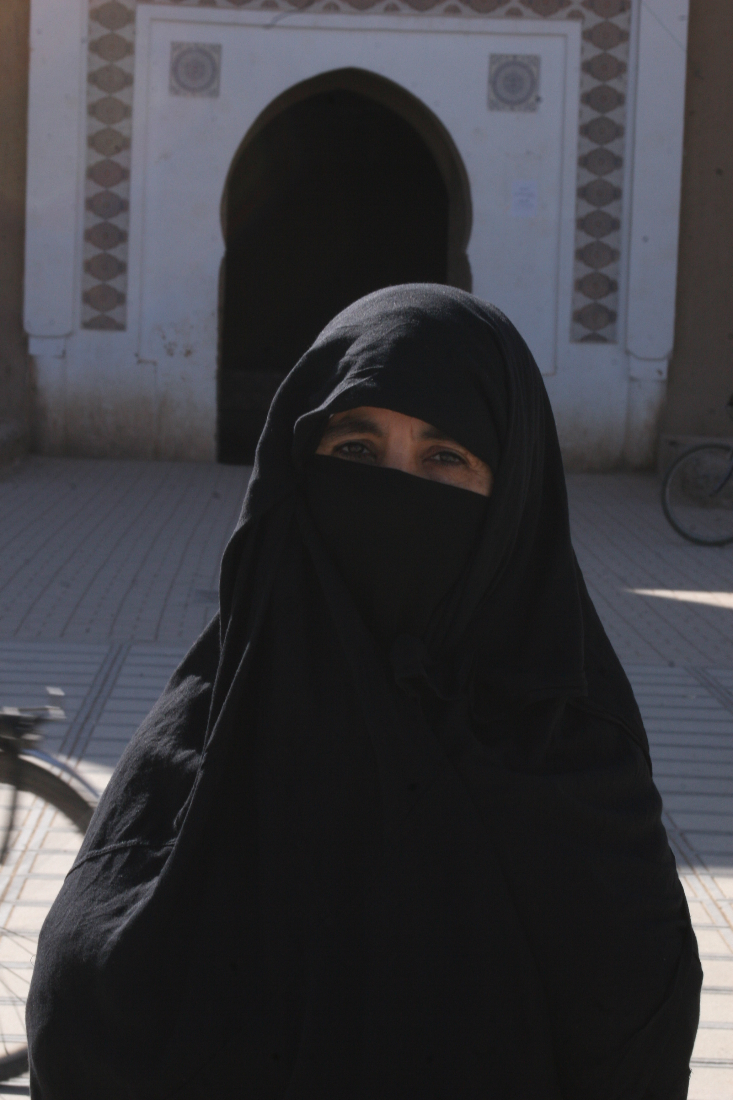 WOMEN SAHRAOUI This is an image with the theme "Africa on the Move or Transport" from: Morocco